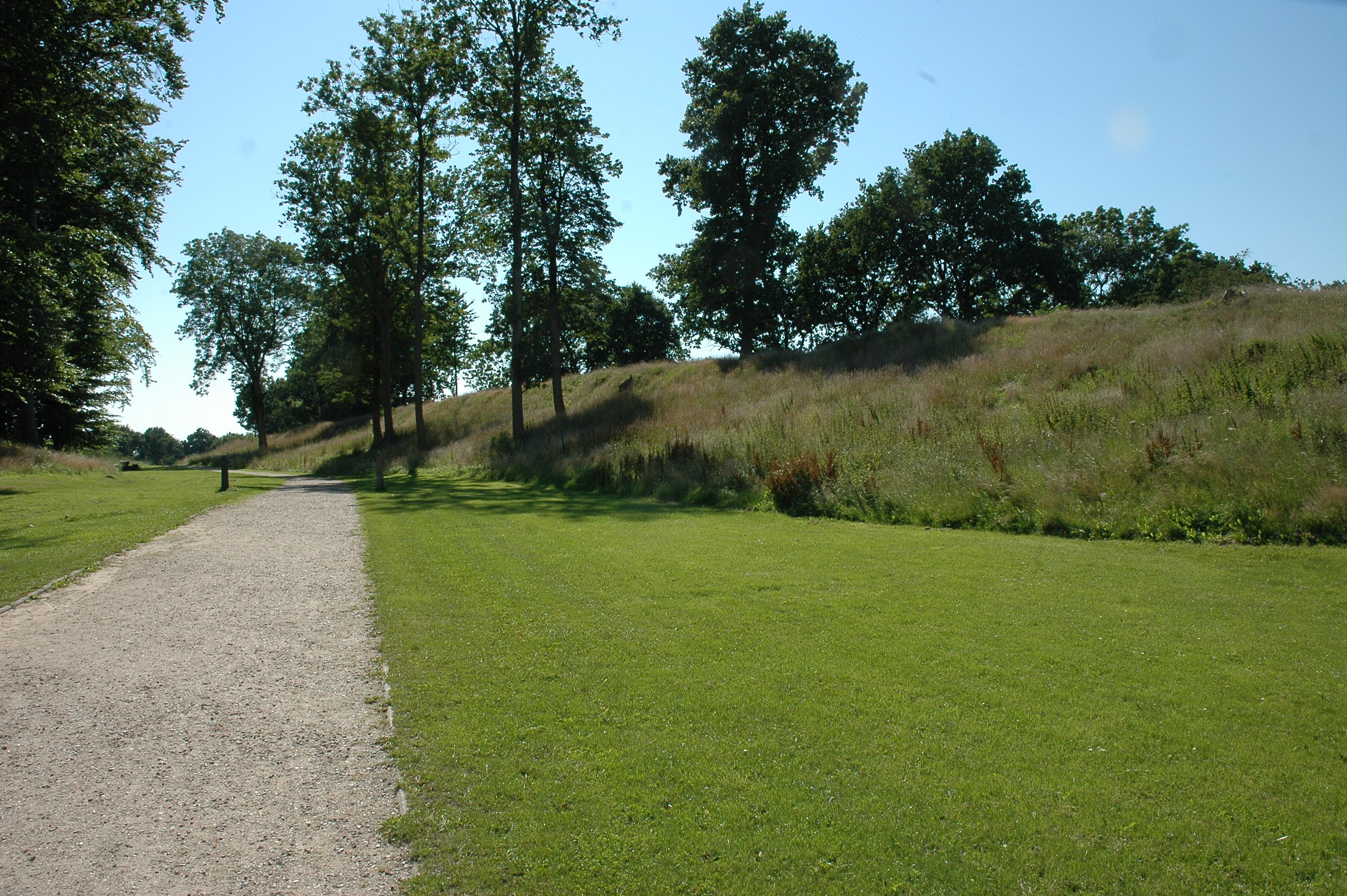 Photo from Dannevirke i 2008